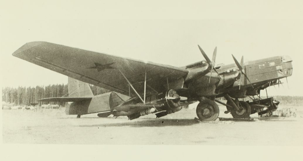 Catalog #: 01_00088935 Manufacturer: Tupolev Designation: TB-3 Notes: USSR Repository: San Diego Air and Space Museum Archive Tags: Tupolev, TB-3, USSR